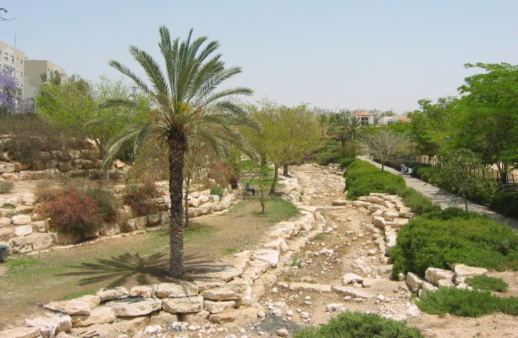 This is my own work. Photo by Gila Brand. Nahal Ashan park, dry riverbed in Beersheva